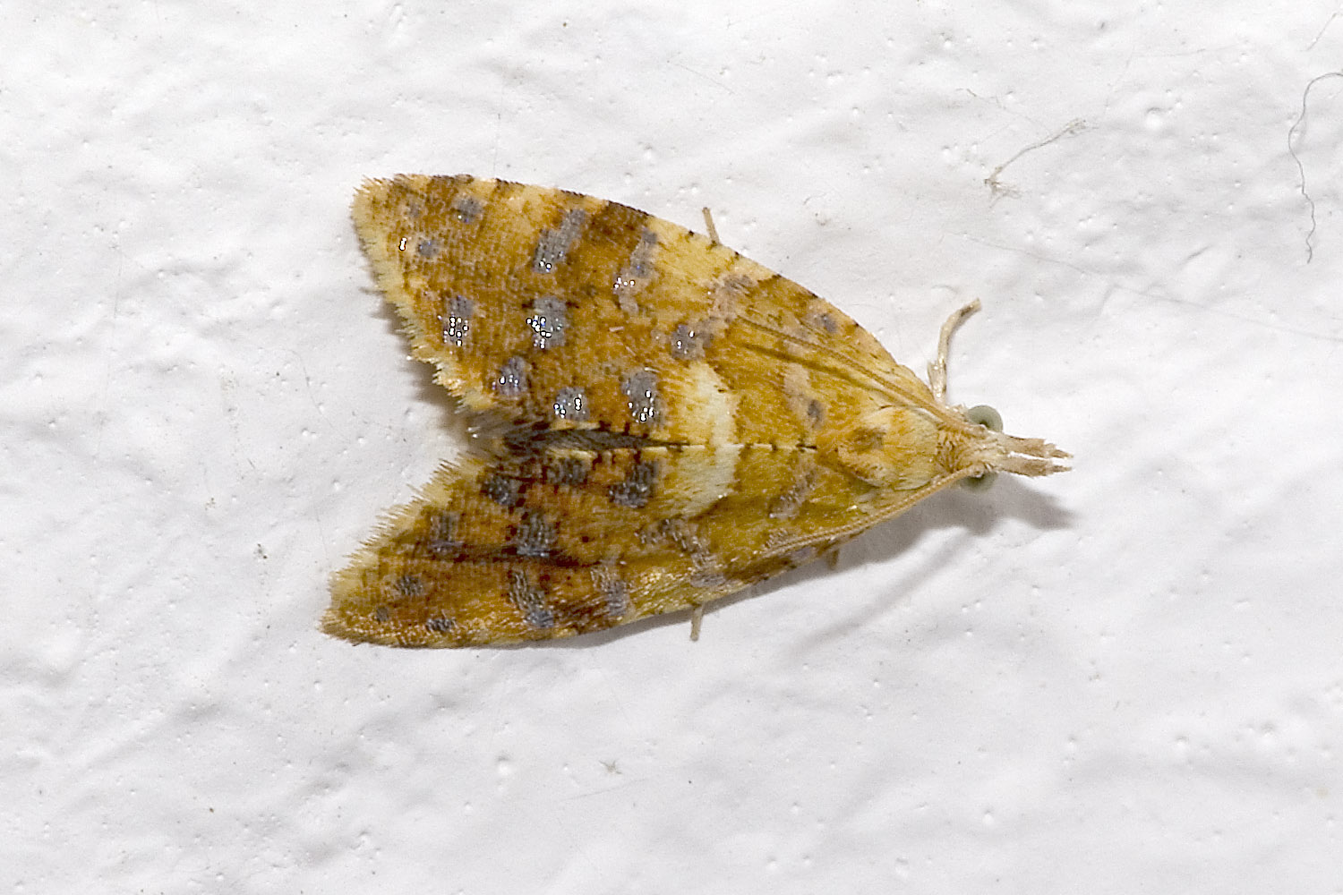 Pseudargyrotoza conwagana (Fabricius, 1775) Location: Dresden, Pohrsdorfer Weg (Saxony, Germany) 5/180L f22 Film / Speed: ISO 100 Comment: Canon Flash 580EX